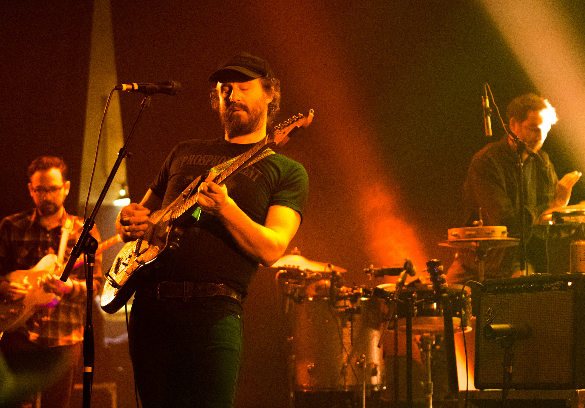 Phosphorescent performs at the Oriental Theater in Denver on November 24, 2018.